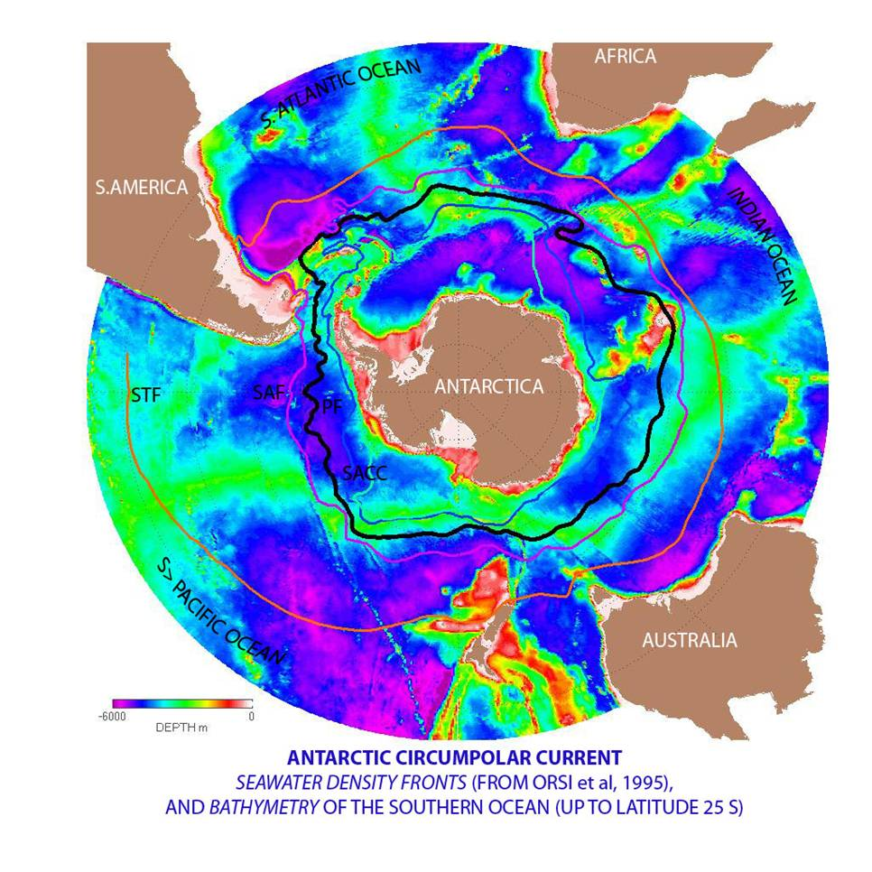 Antarctic Circumpolar Current image from Grace Mission. Courtesy NASA/JPL-Caltech. SACC = Southern Antarctic Circumpolar Current Front PF = Polar Front SAF = Subantarctic Front STF = Subtropical Front This image fulfill all the conditions of the JPL image use policy. For more information about this